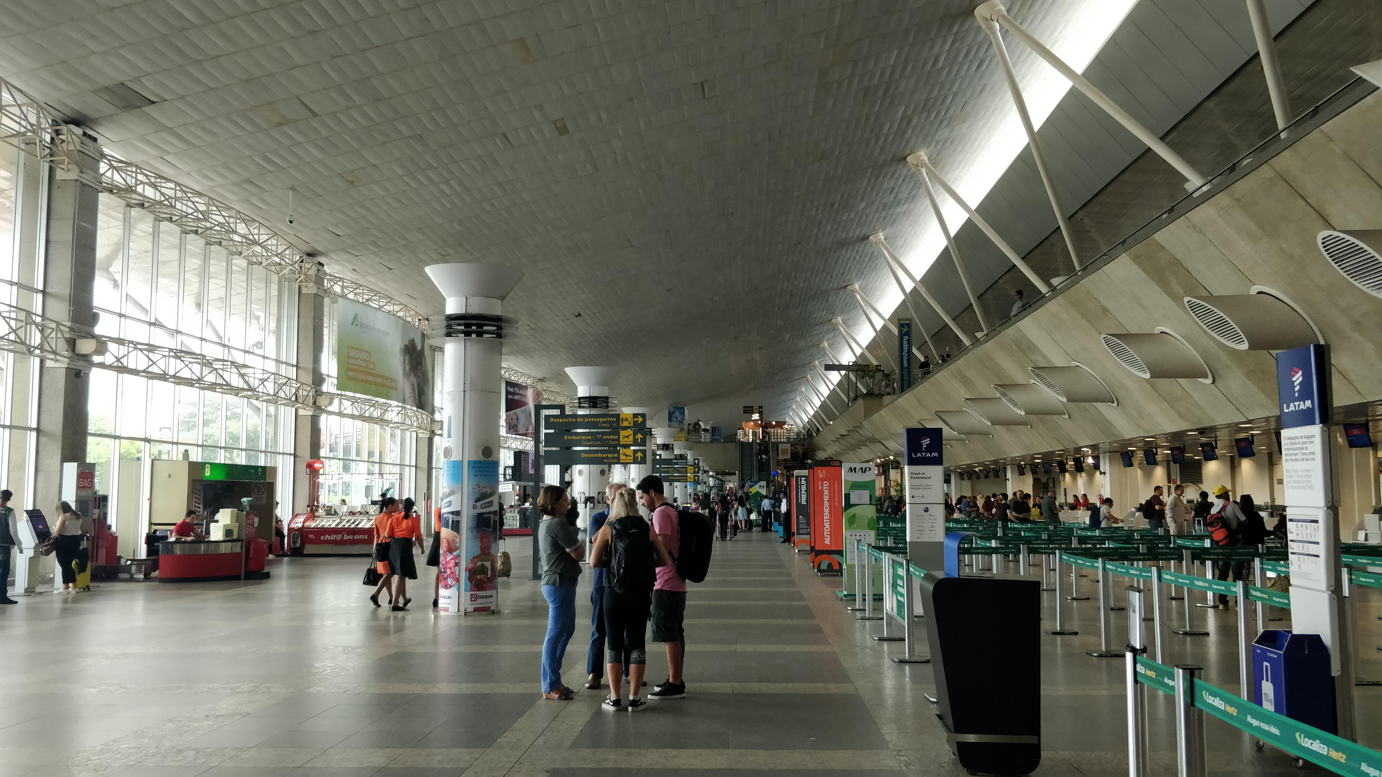 Belém International Airport, Pará, Brazil